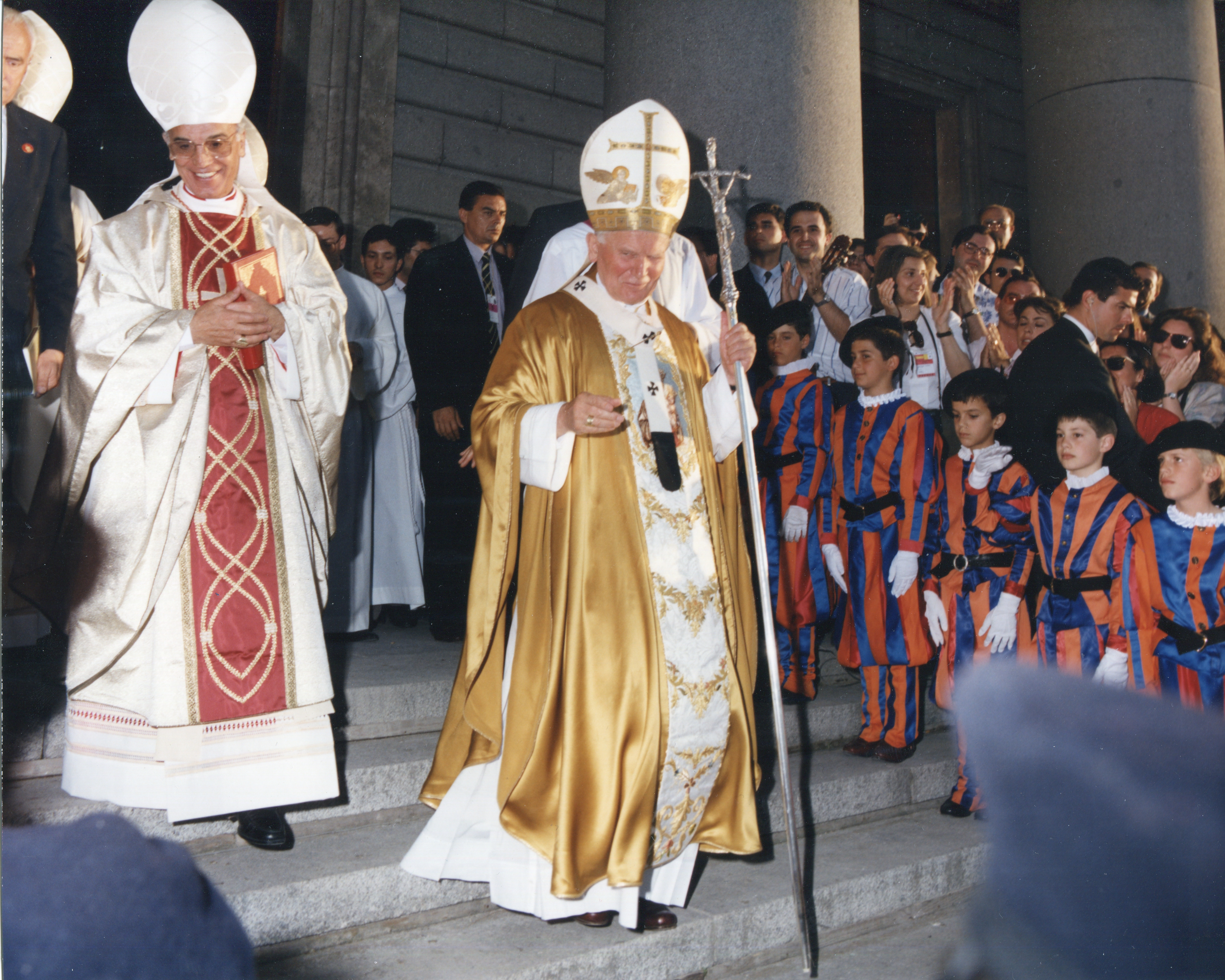 Bendición de la catedral de la catedral de la Almudena por Juan Pablo II el 15 de junio de 1993 Créditos: Archimadrid